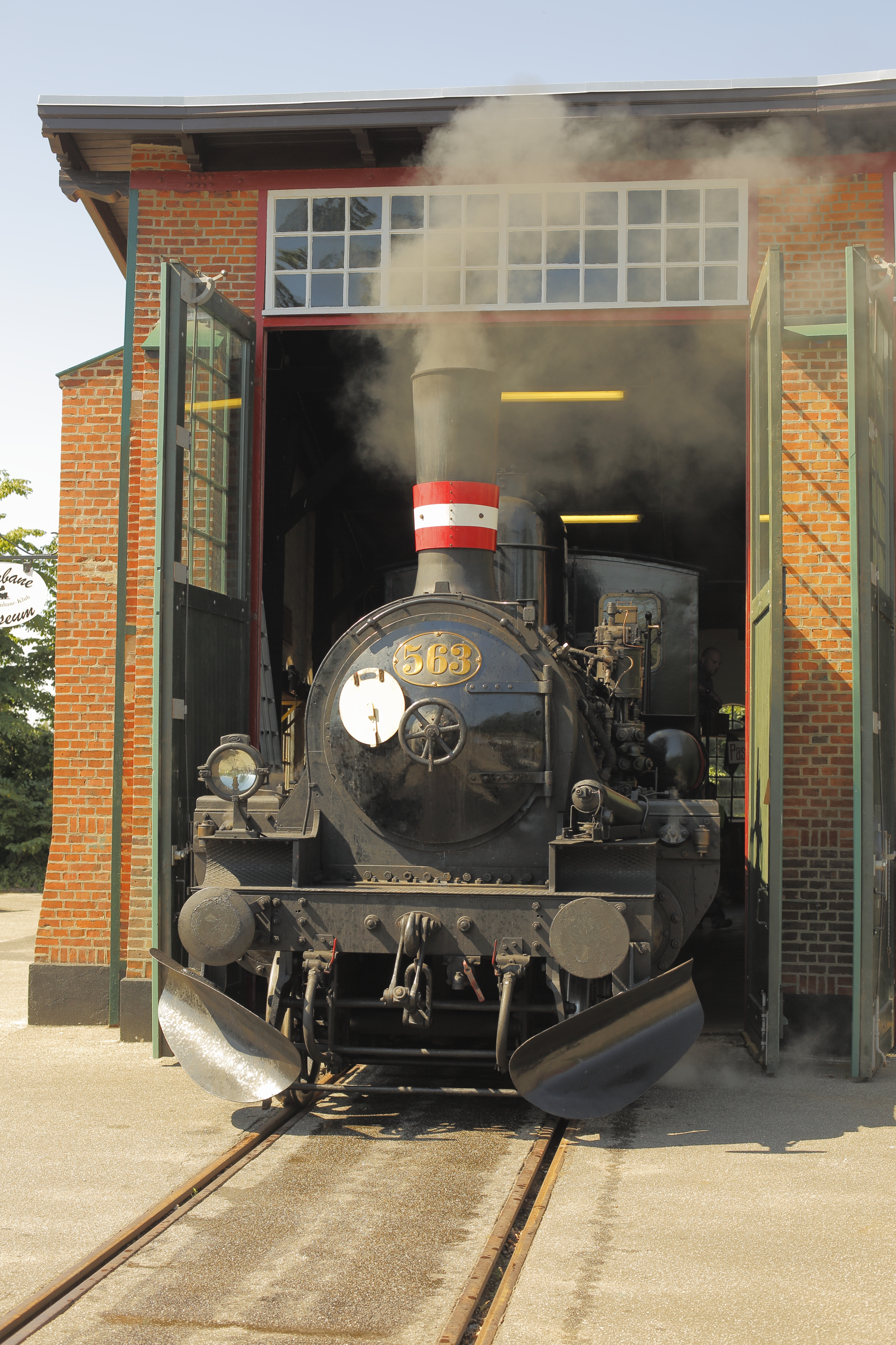 K 563 in roundhouse